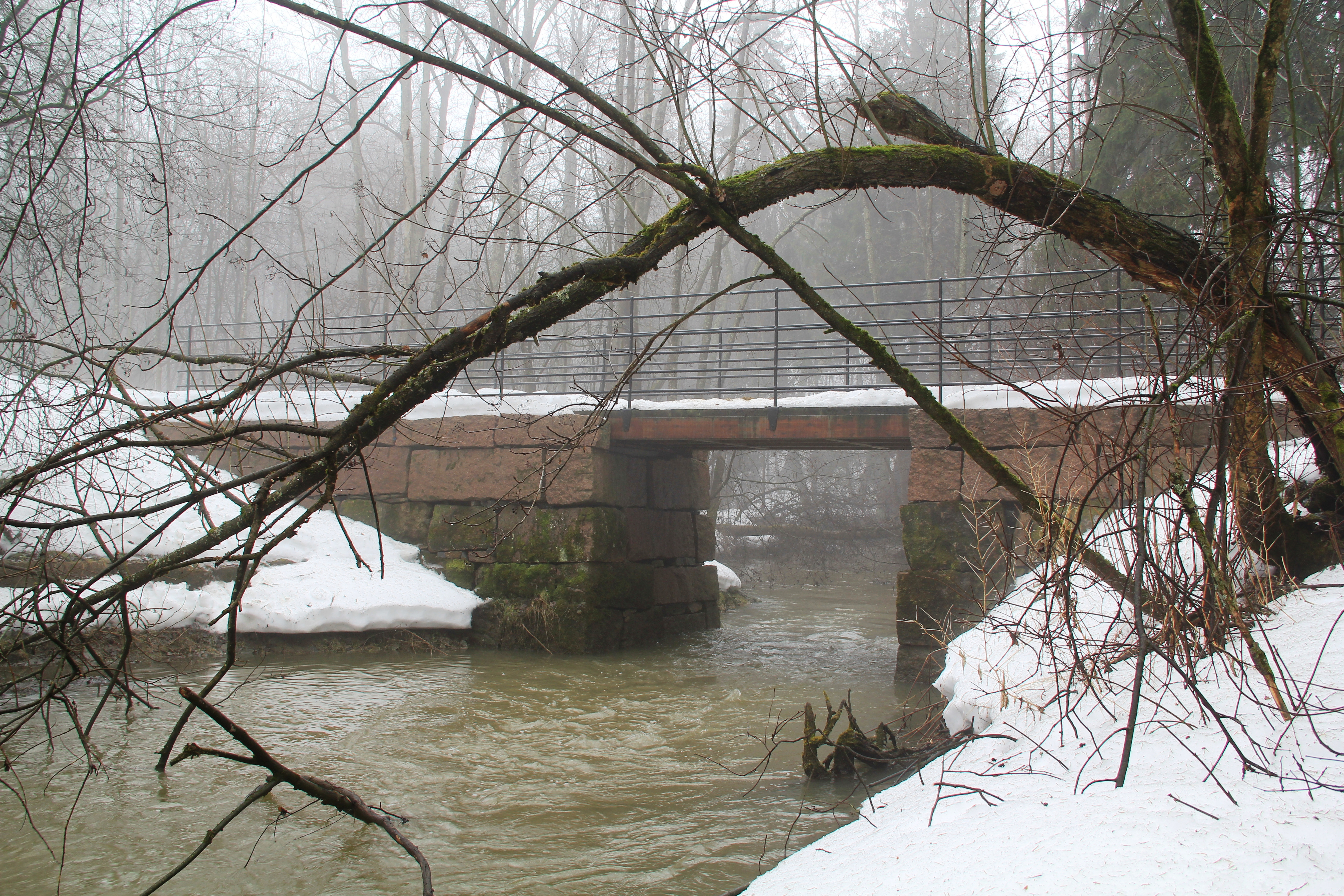 River Alna in Alnaparken, Oslo.